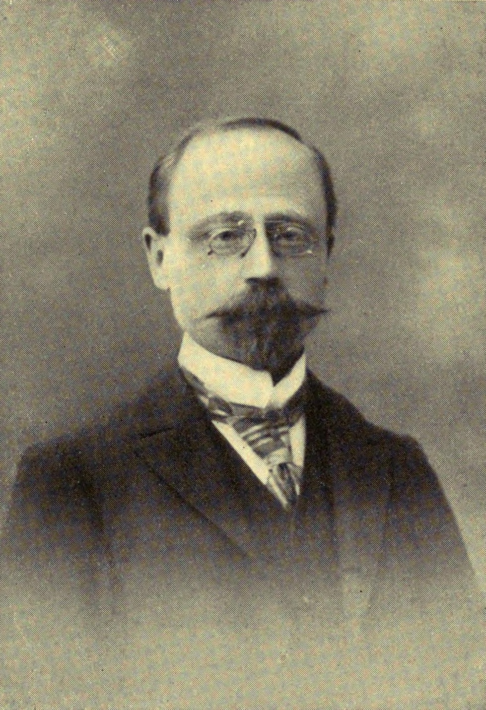 Portrait of Théodore Eugène César Ruyssen